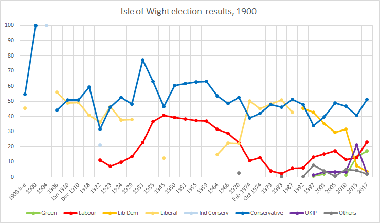 Isle of Wight election history